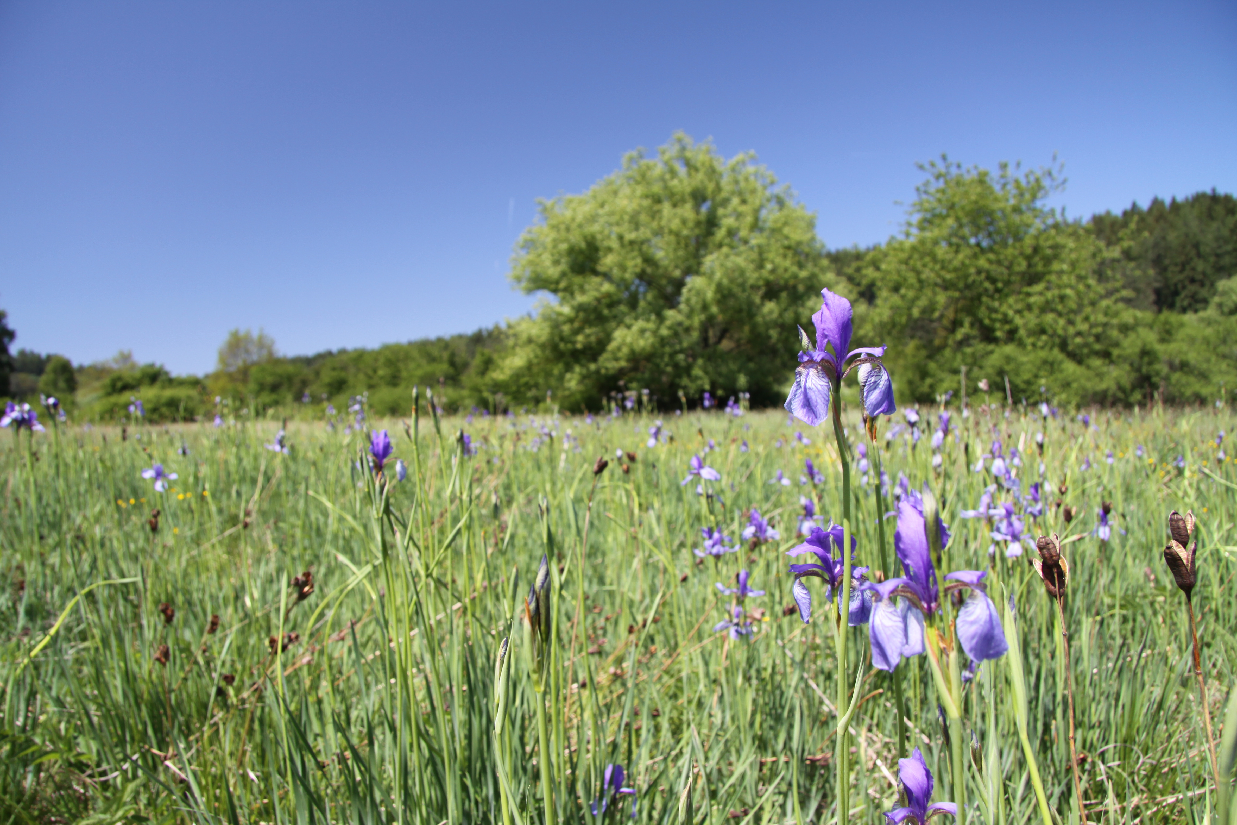 Iris sibirica in natural monument Novoveská draha near Nová ves village near Nepomuk, Plzeň-jih District, Czech Republic